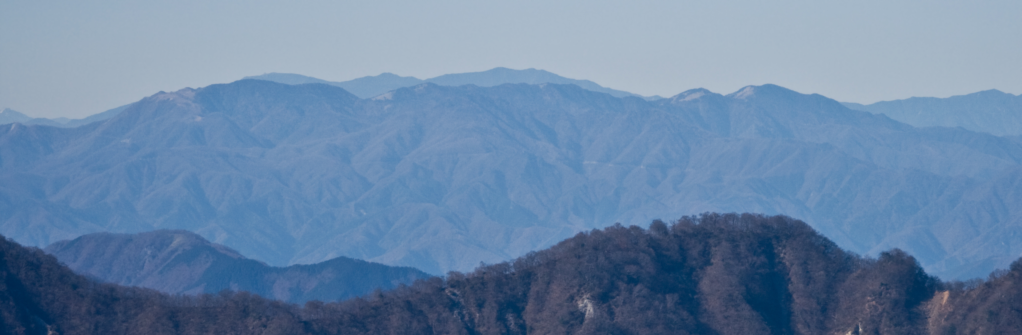 Daibosatsu Mountains seen from the southeast. Taken from Tonodake.